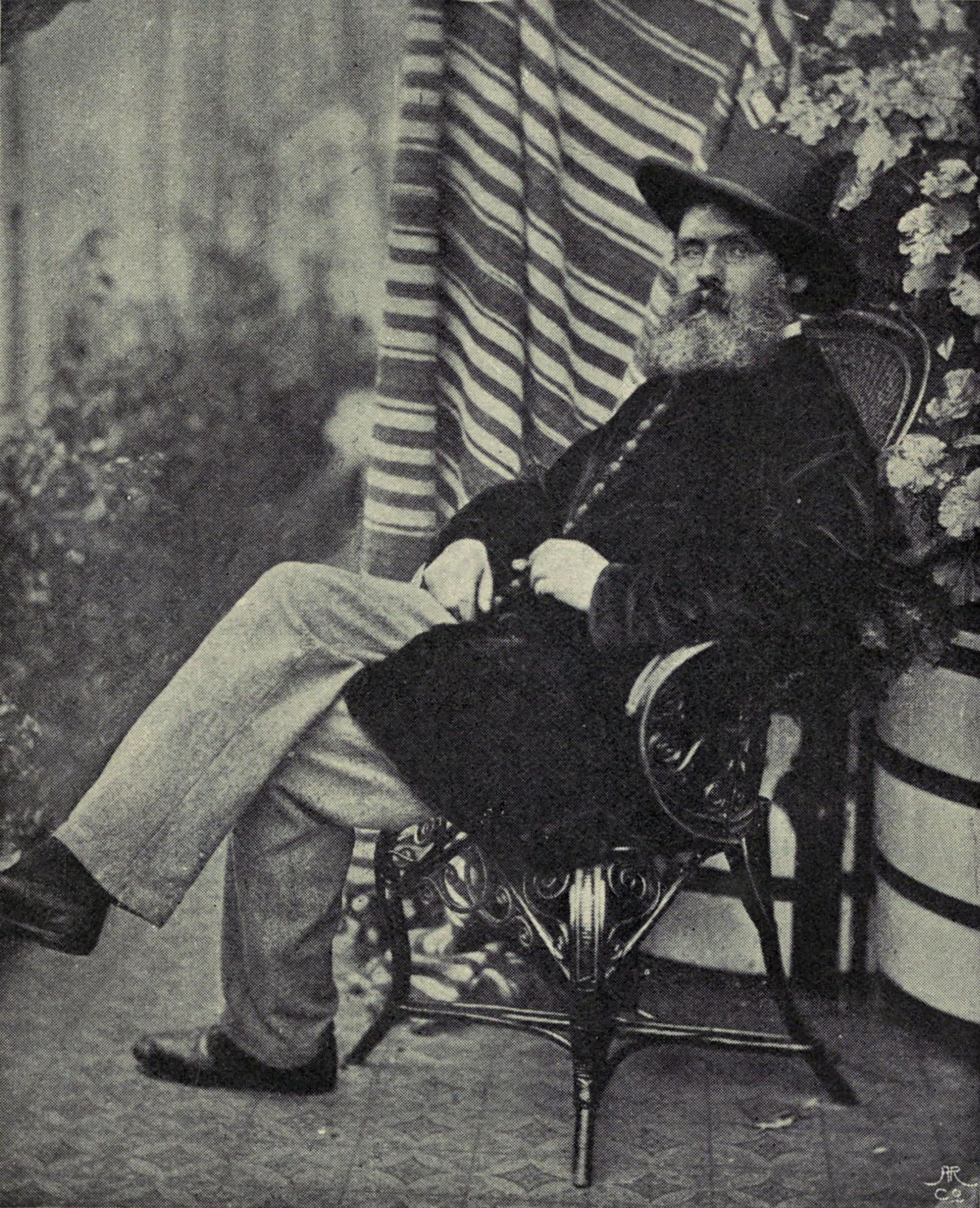 Portrait of Tom Taylor